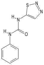 thidiazuron (plant growth regulator)